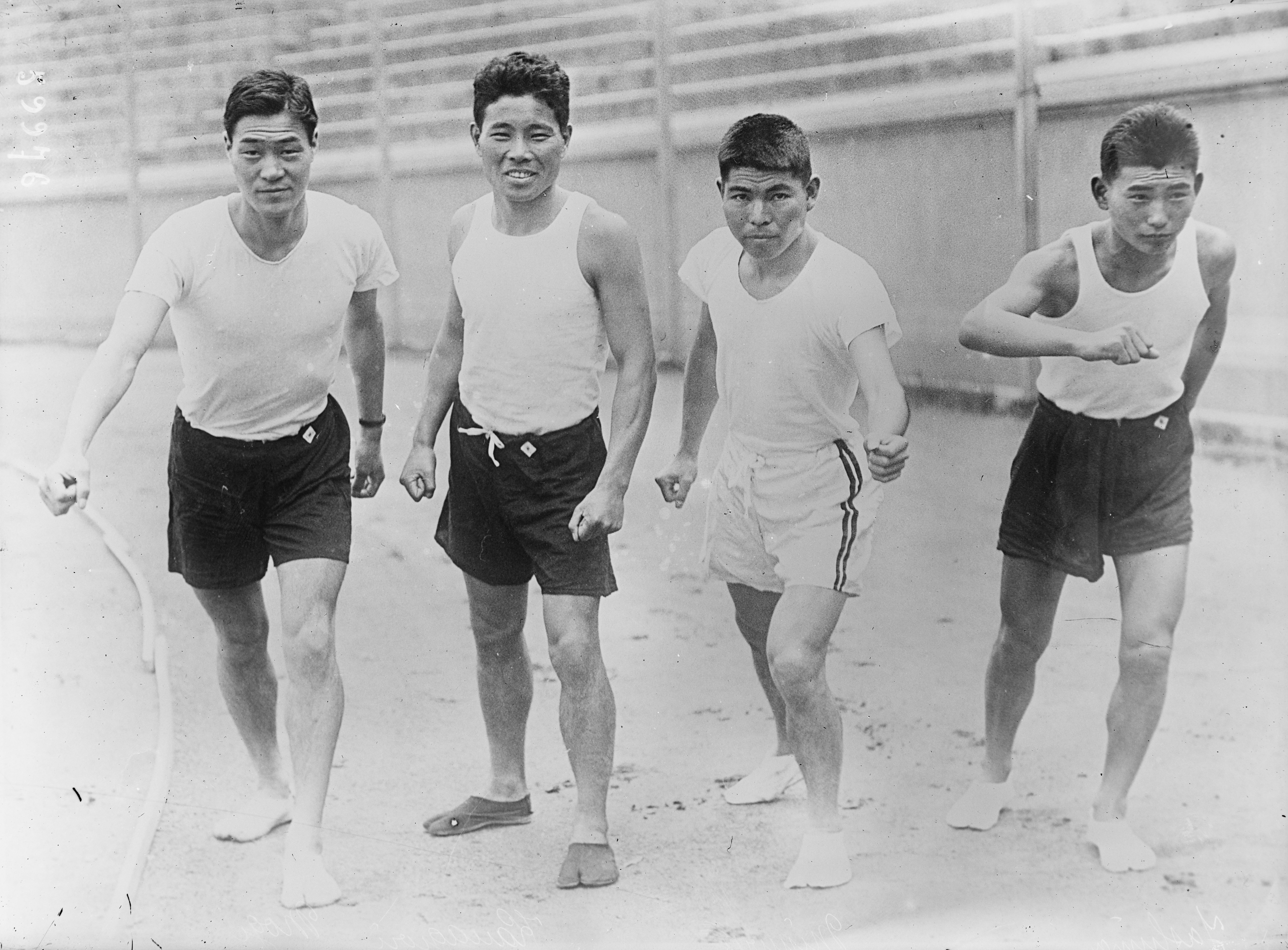 [Kenzo] Yashima, [Yahei] Miura, [Chizo]Kanakuri, [Zensaku] Motegi, [japanese marathon runners].